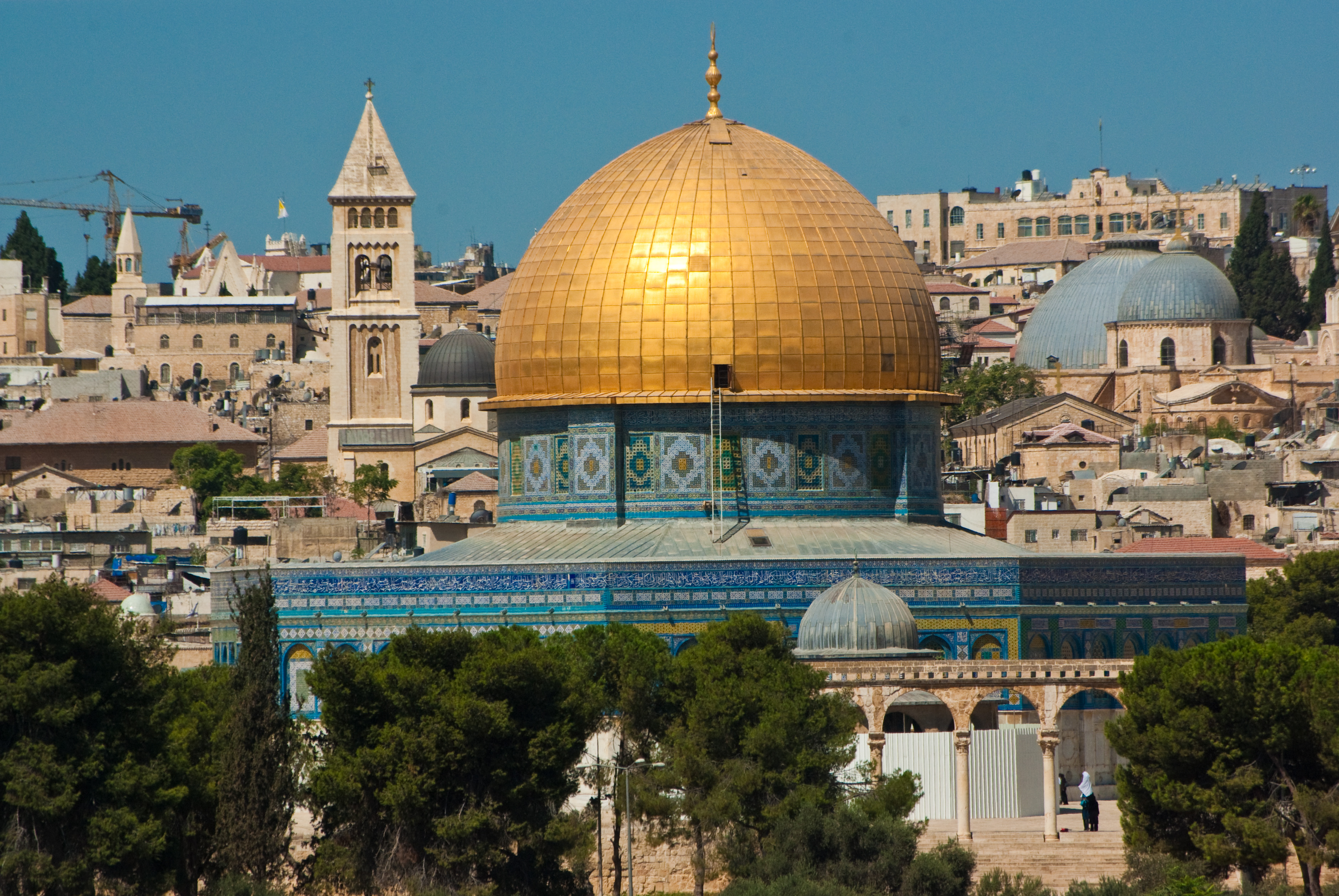 Exterior of the Dome of the Rock